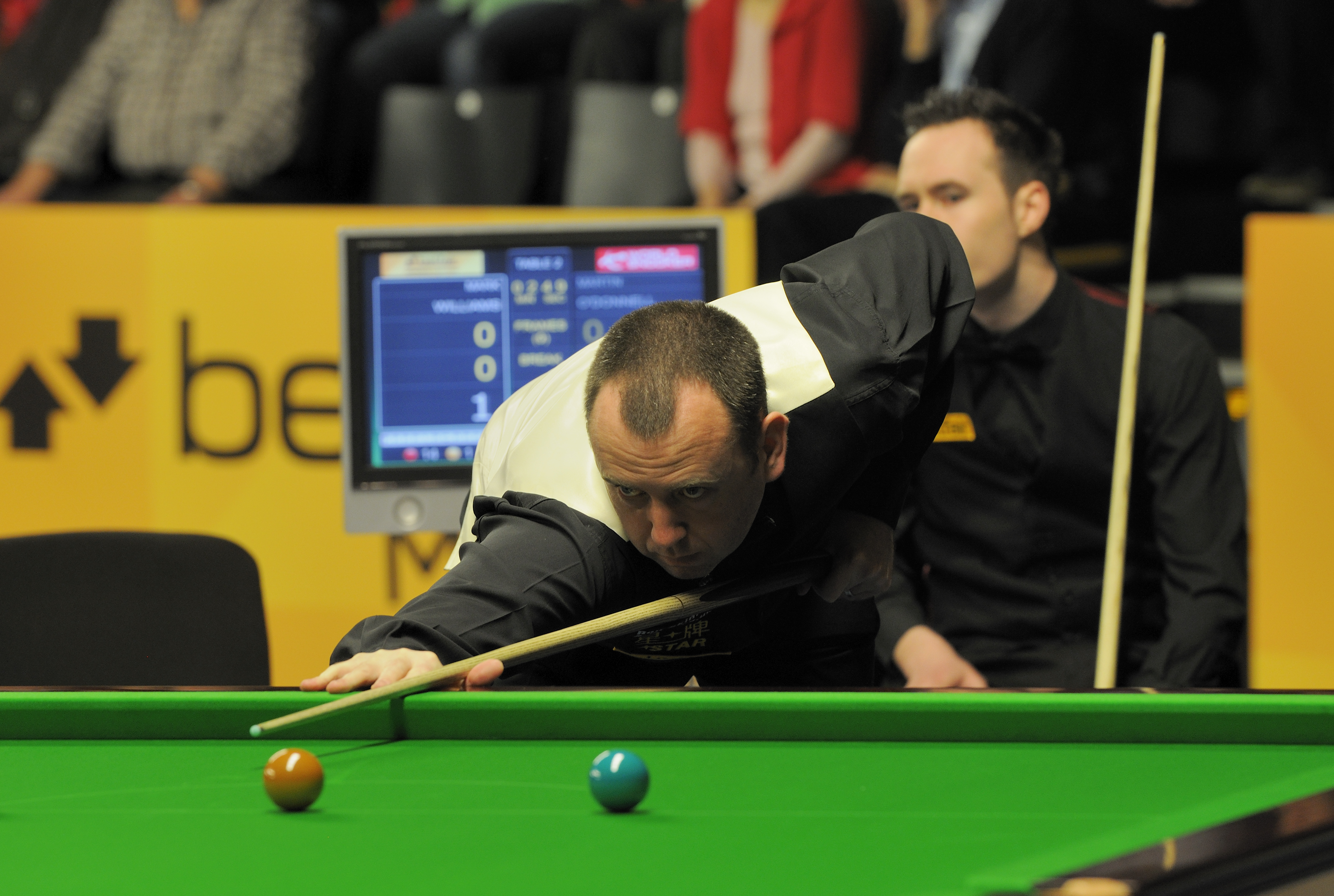 Picture taken in Berlin during the Snooker German Masters in 2013. Mark Williams.